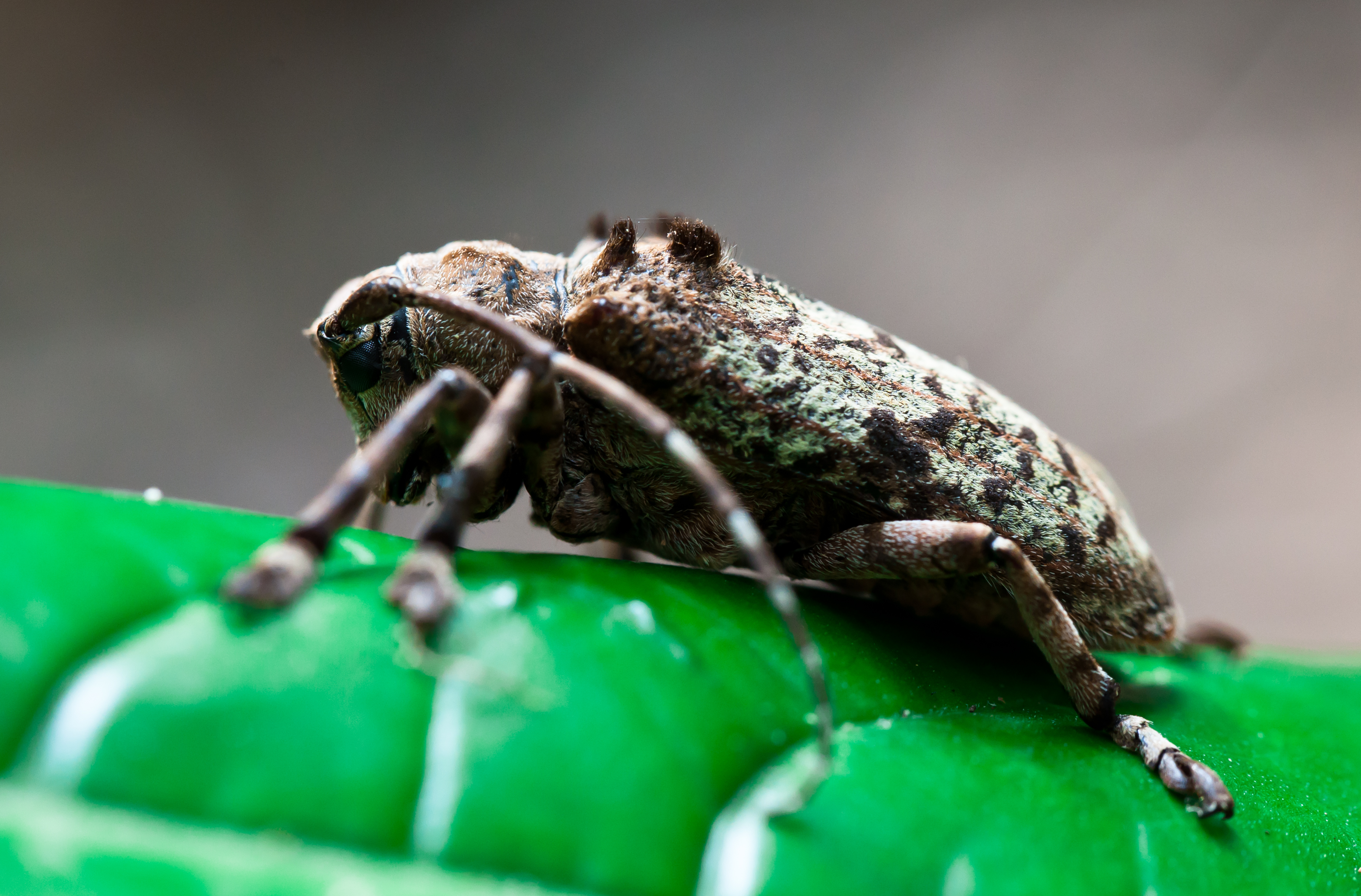 Moechotypa delicatula - Kaeng Krachan National Park, Thailand Photo by Rushenb